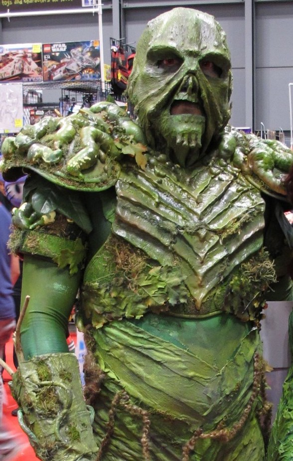 Perhaps? Ms. Swamp Thing? Cosplay at the 2014 New York Comic Con.